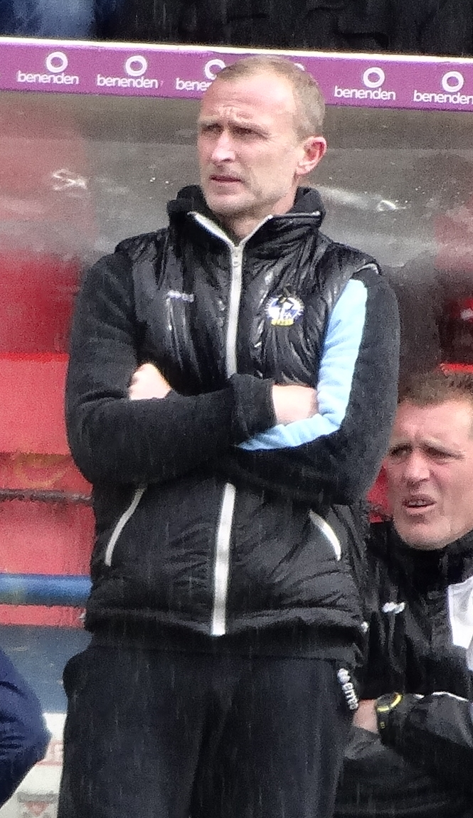 Steve Yates during Bristol Rovers' match against York City at Bootham Crescent, York on 30 April 2016 }